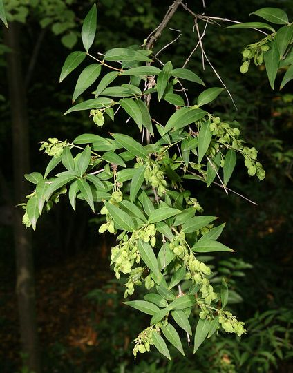 Fruiting branch of Fontanesia fortunei, Brno Arboretum, Czech Republic